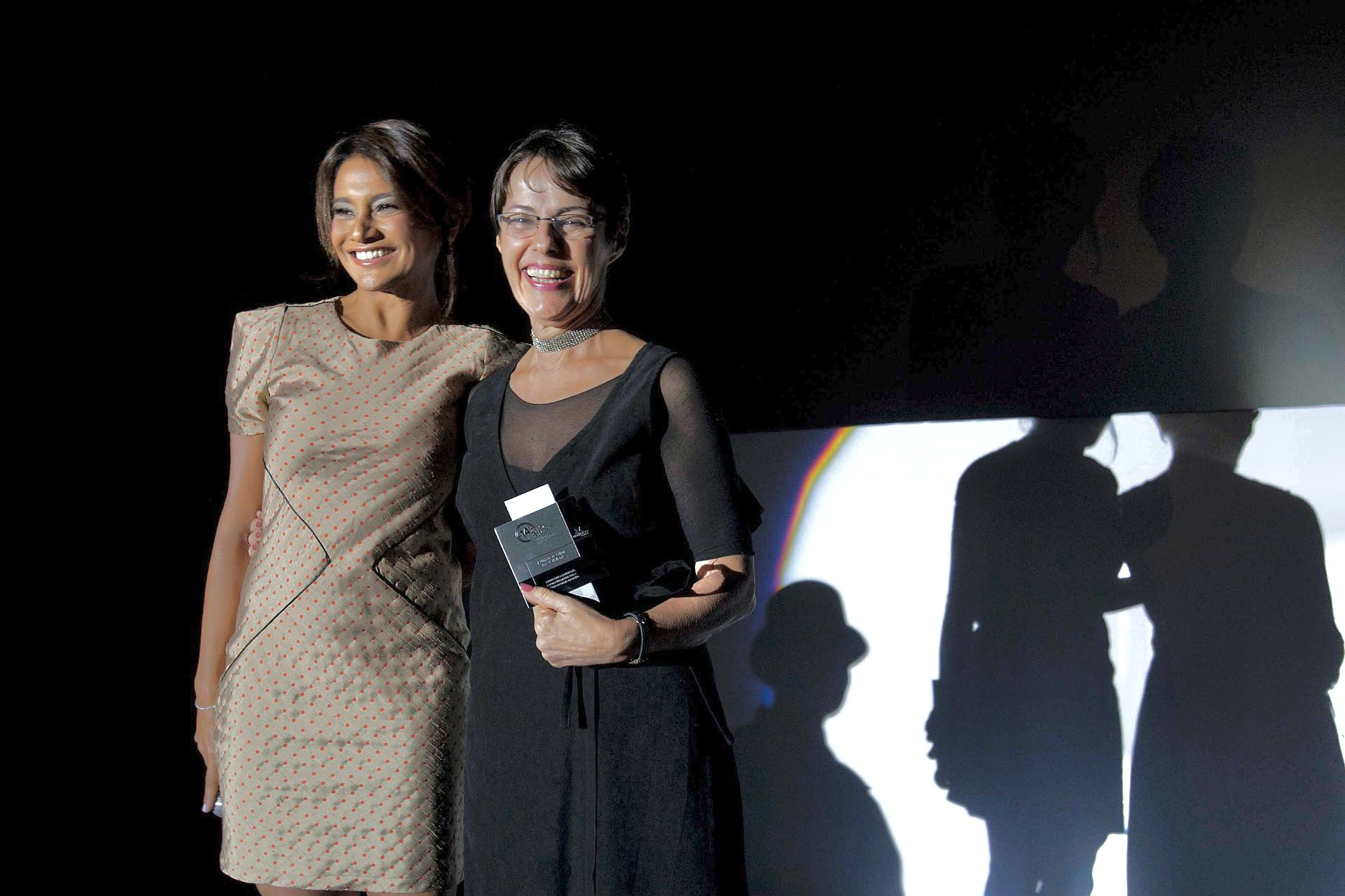 Foto: Victor Schwaner